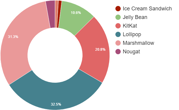 Global Android version usage as of January 2017